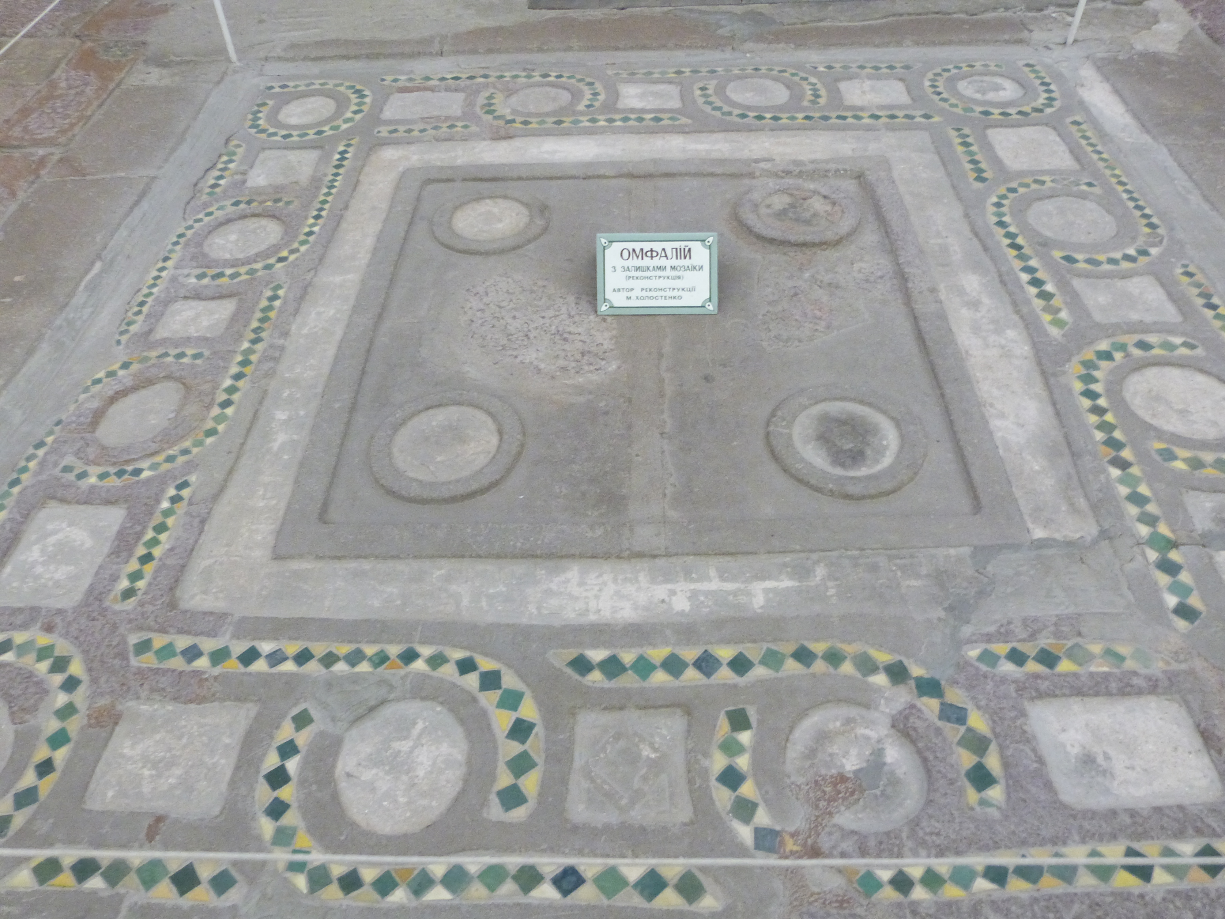 Fragments of mosaics of the 12th century from the Cathedral of Boris and Gleb (Chernigov)